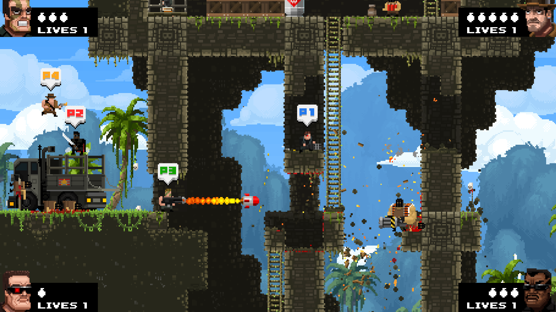 Four-player action from Broforce video game